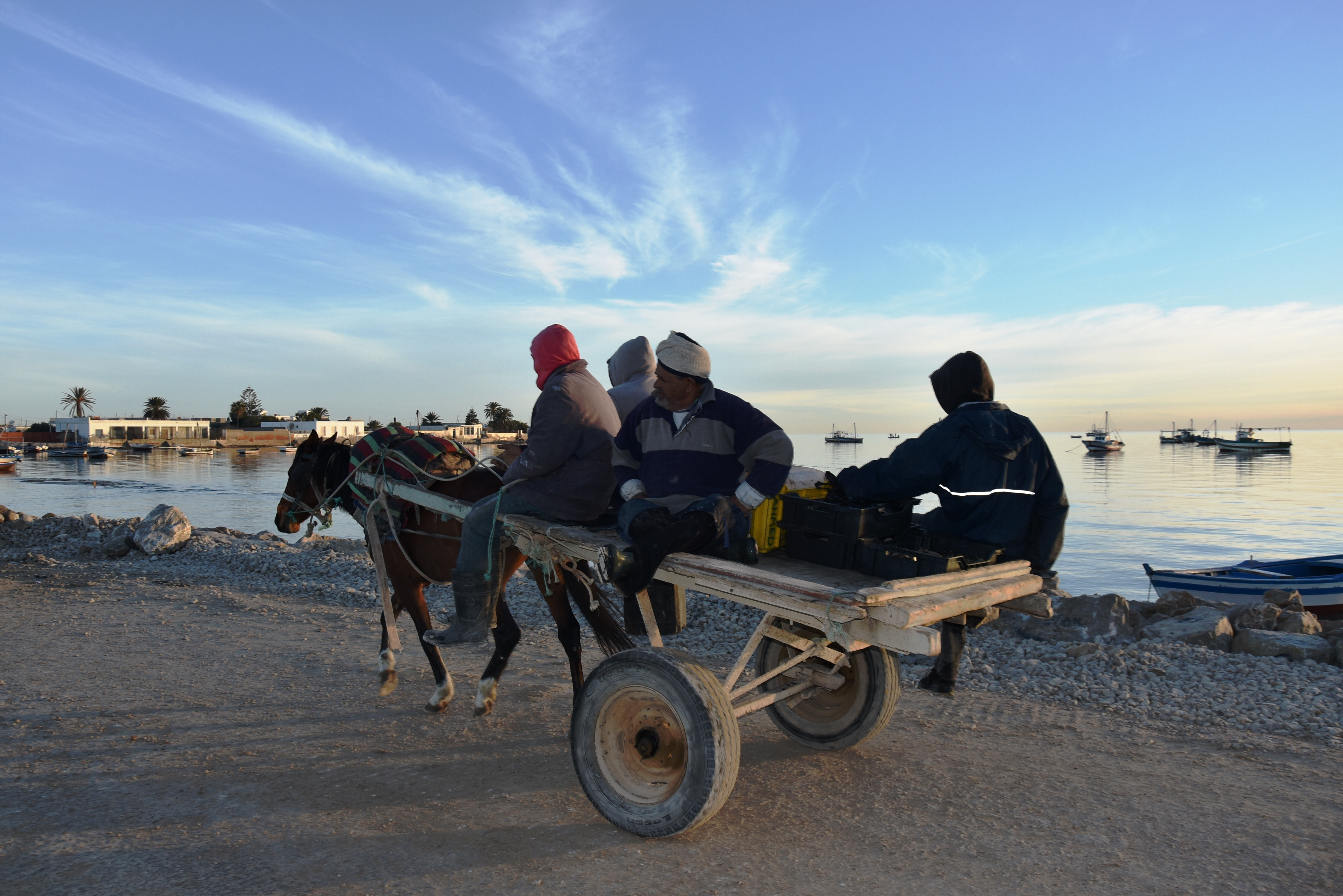 This is an image with the theme "Africa on the Move or Transport" from: Tunisia